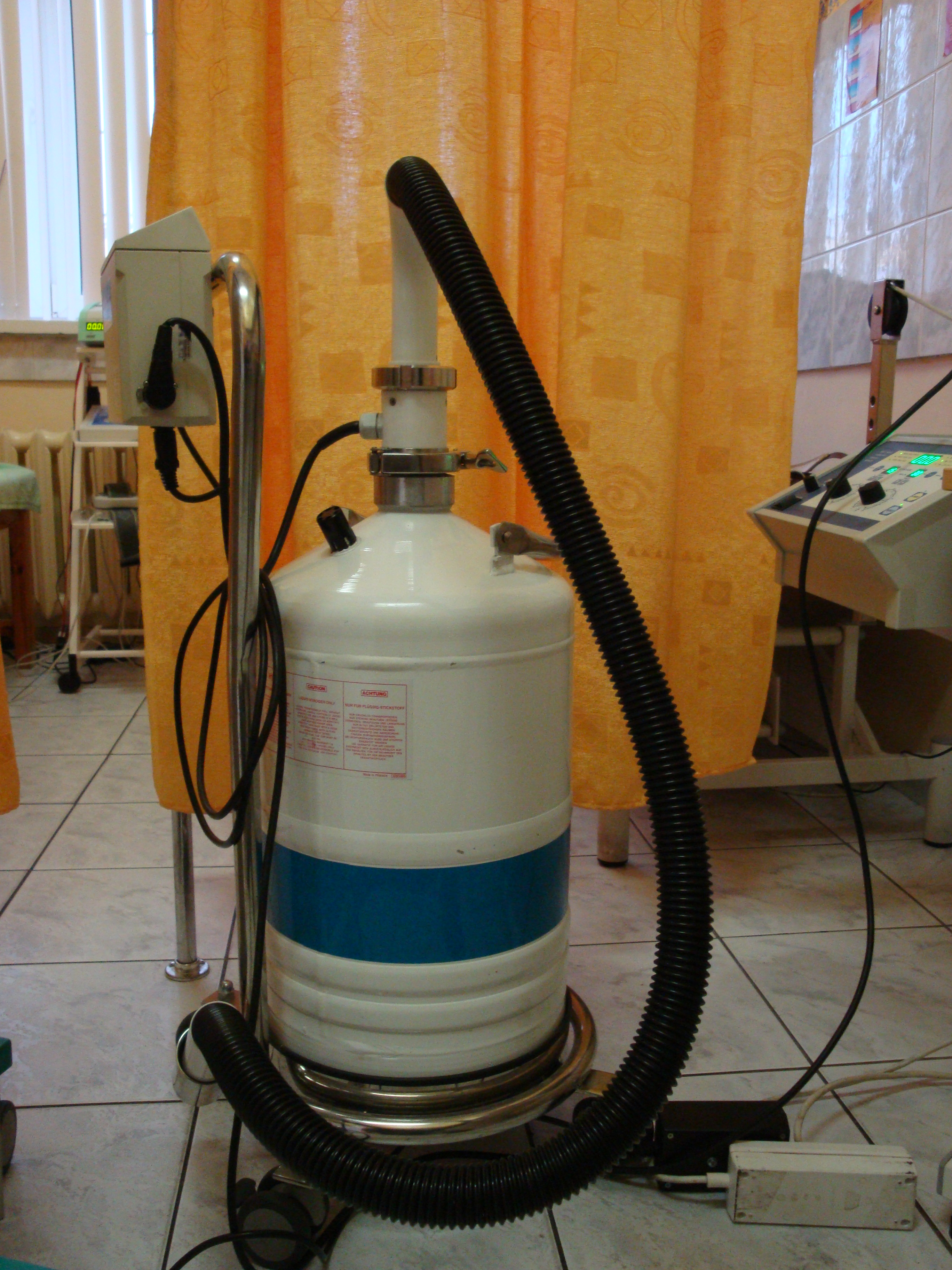 Cryotherapy set using vapours of liquified nitrogen